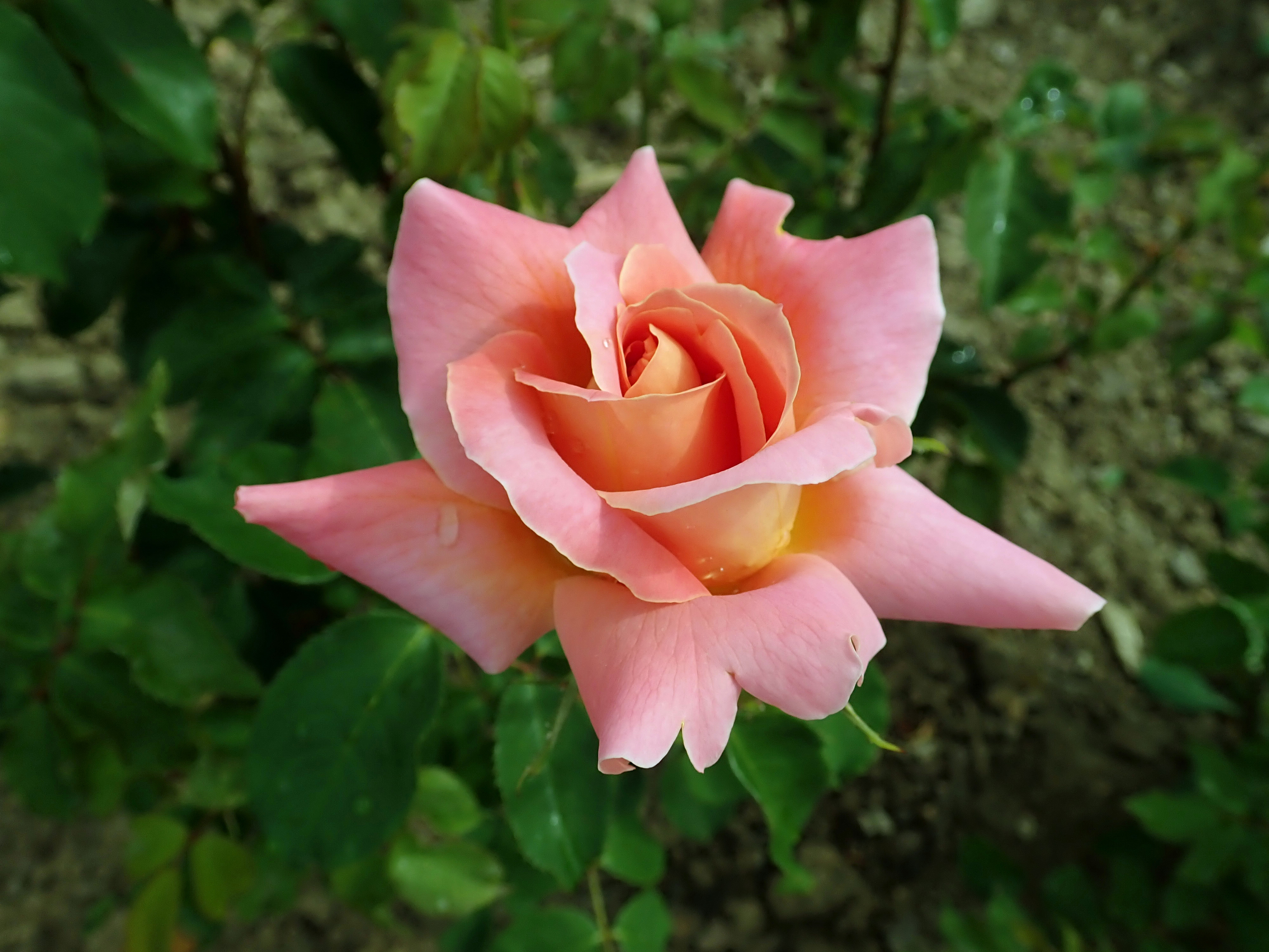 Rosa ‘Mme. Noël’ (Chambard, 1939), Europa-Rosarium Sangerhausen.